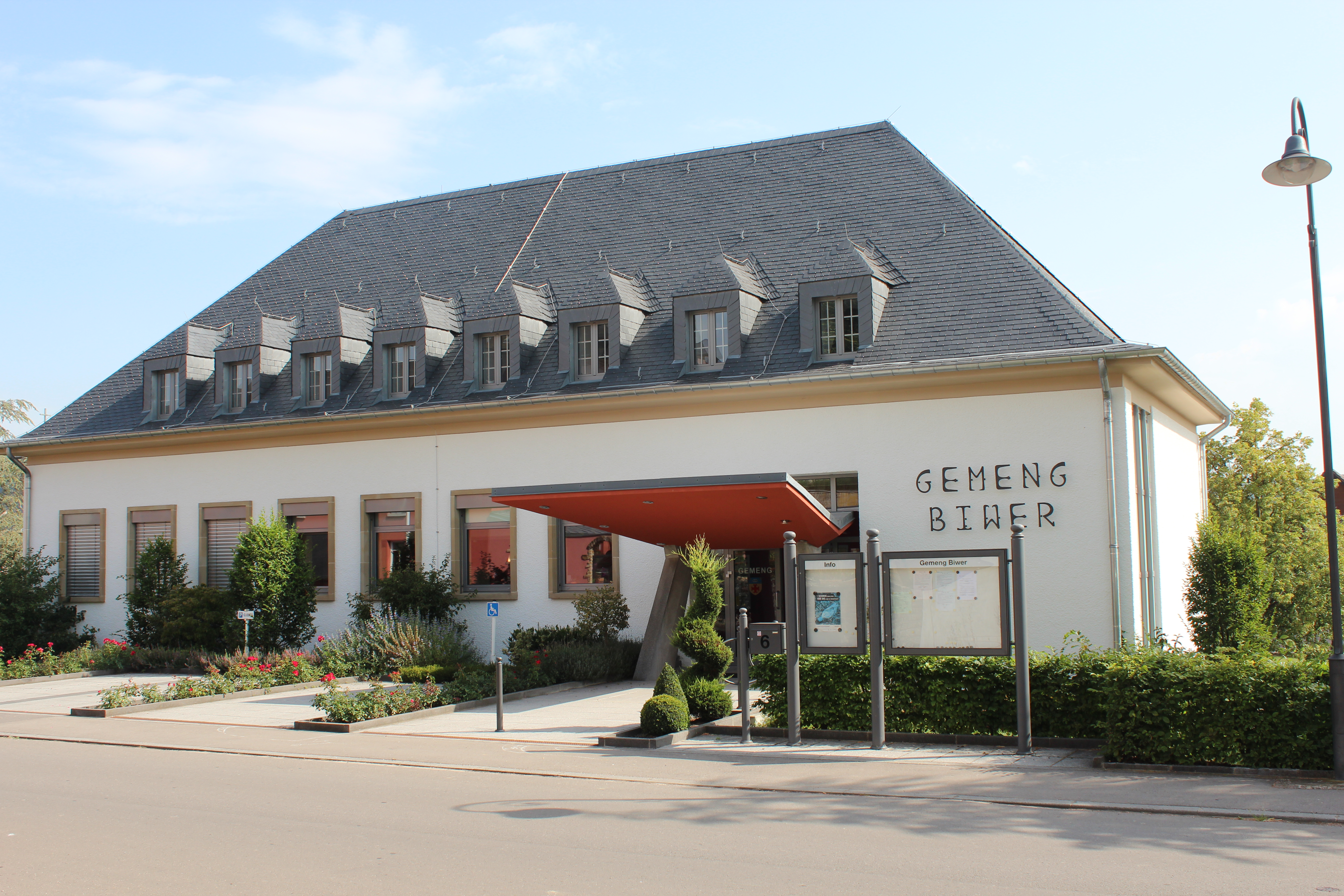 Town hall of Biwer, Luxembourg